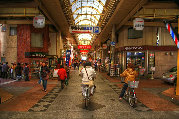 Konanhon-dori in Kobe, Hyogo pref., Japan.